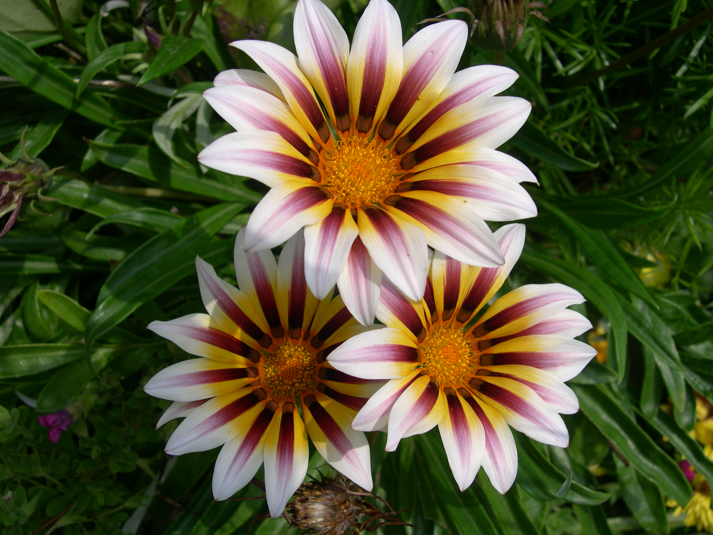 Colourful flowers, Gazania sp.